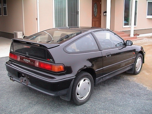 stock honda crx si-r